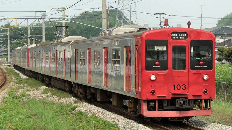 JR Kyushu Electoric car type 103-1500. Second-generation kyushu colour.